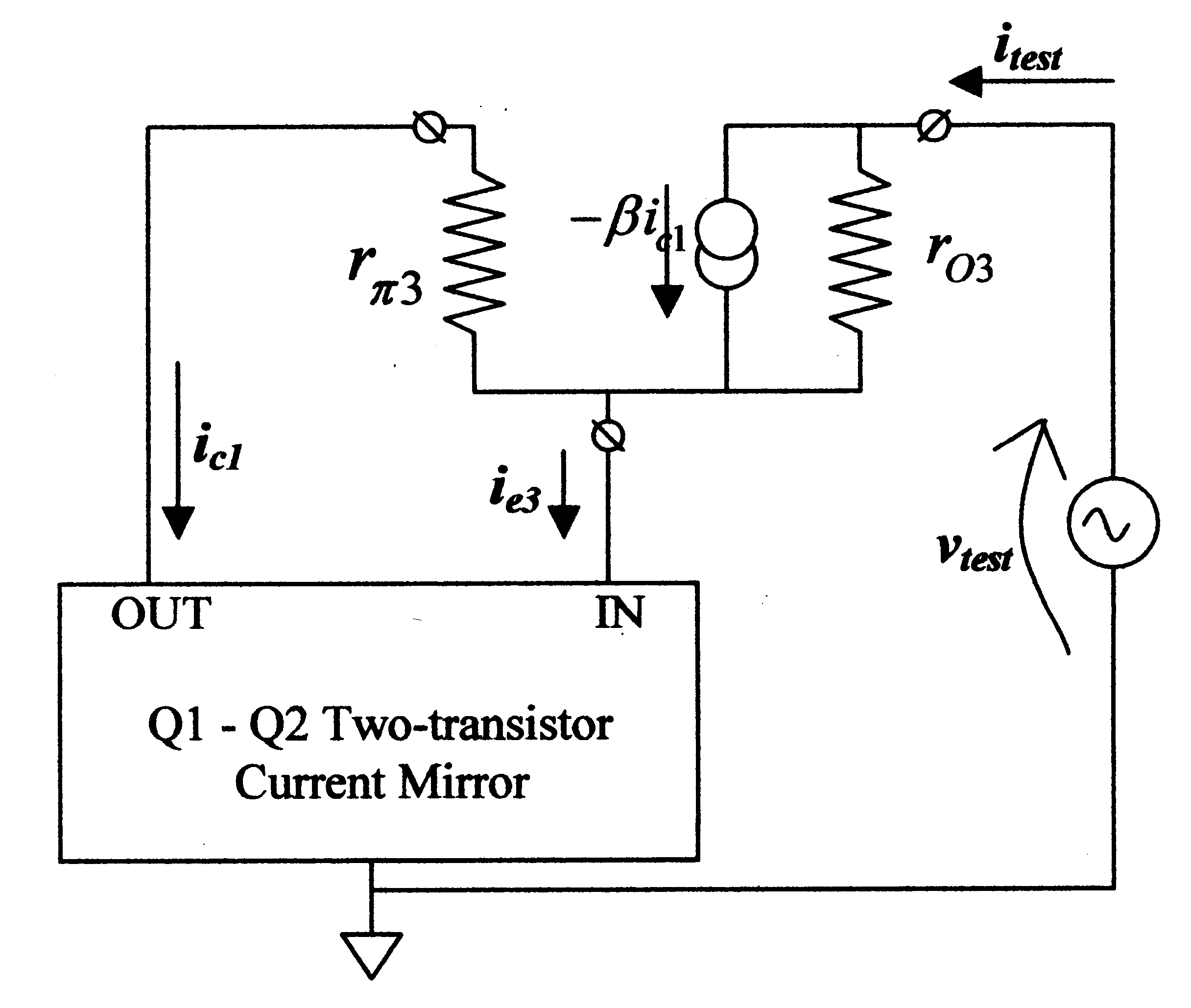 Schematic diagram small signal model of Wilson Current mirror for impedance calculation